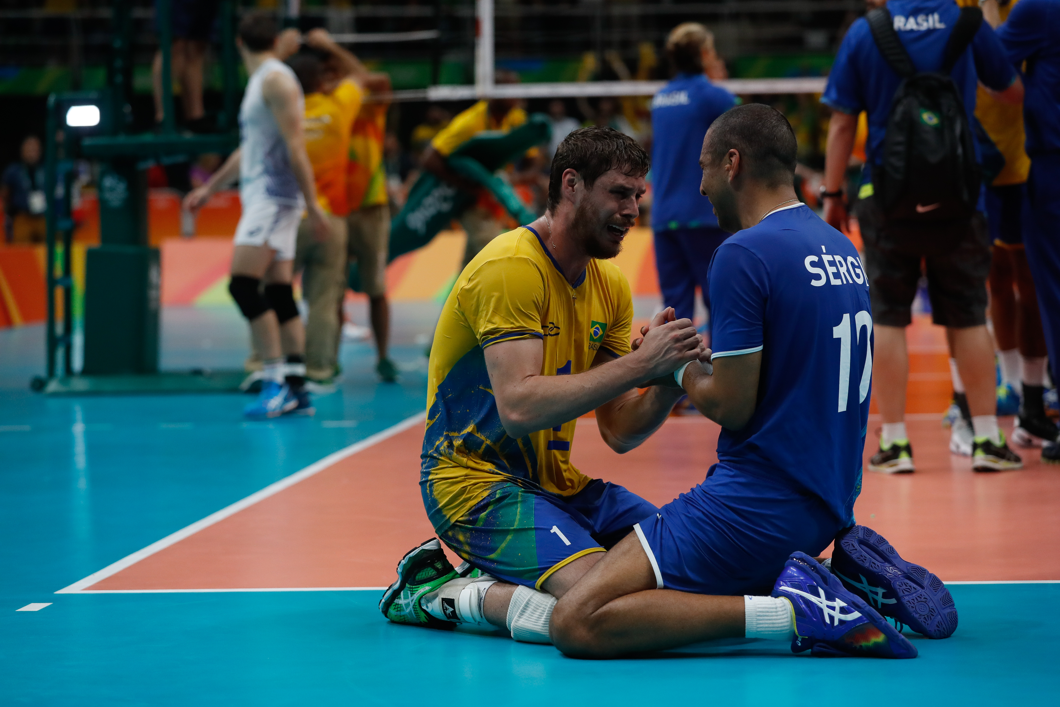 Rio de Janeiro - Seleção brasileira de vôlei disputa contra a Itália a final dos Jogos Olímpicos Rio 2016, no Maracanãzinho (Fernando Frazão/Agência Brasil)